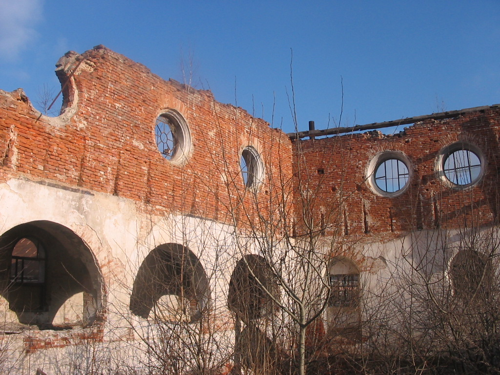 Synagogue in Berezhany, Ukraine